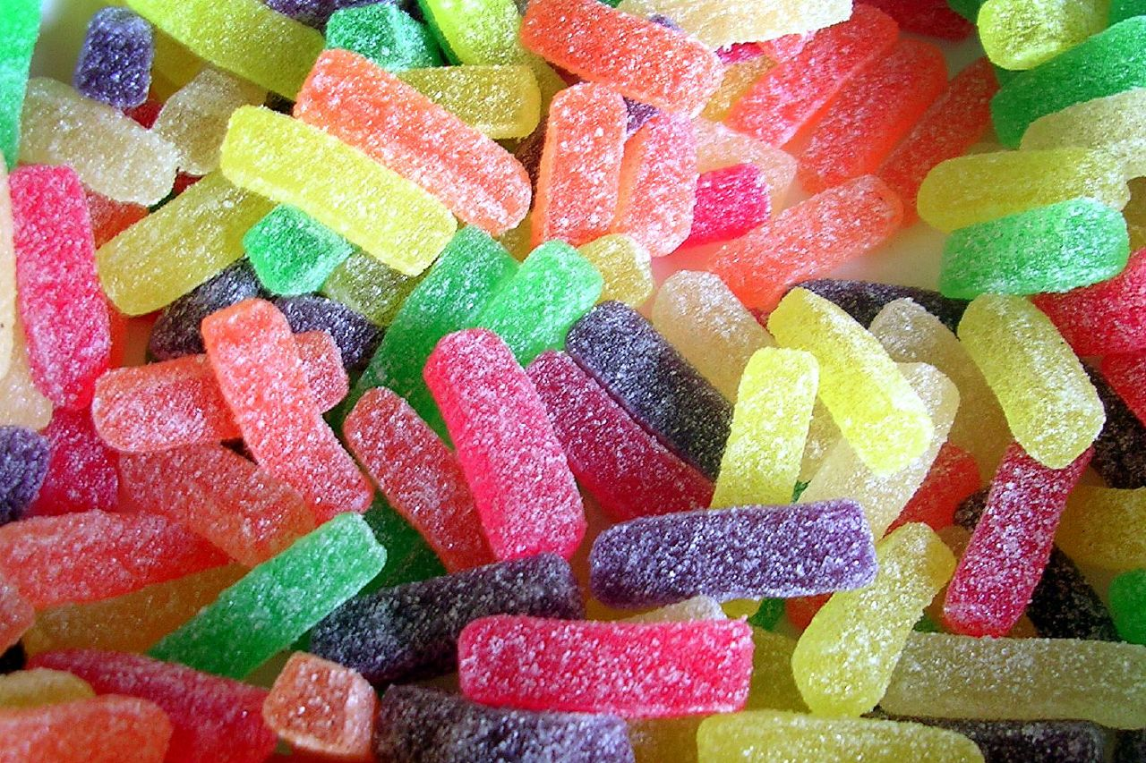 Gummy candy